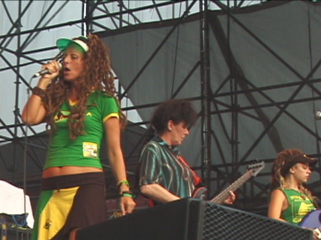 Ari Up, Tessa Pollitt, and Adele Wilson of The Slits, performing at McCarren Park Pool, NYC, on Jul 28 2007. Video still from PUNKCAST#1184.